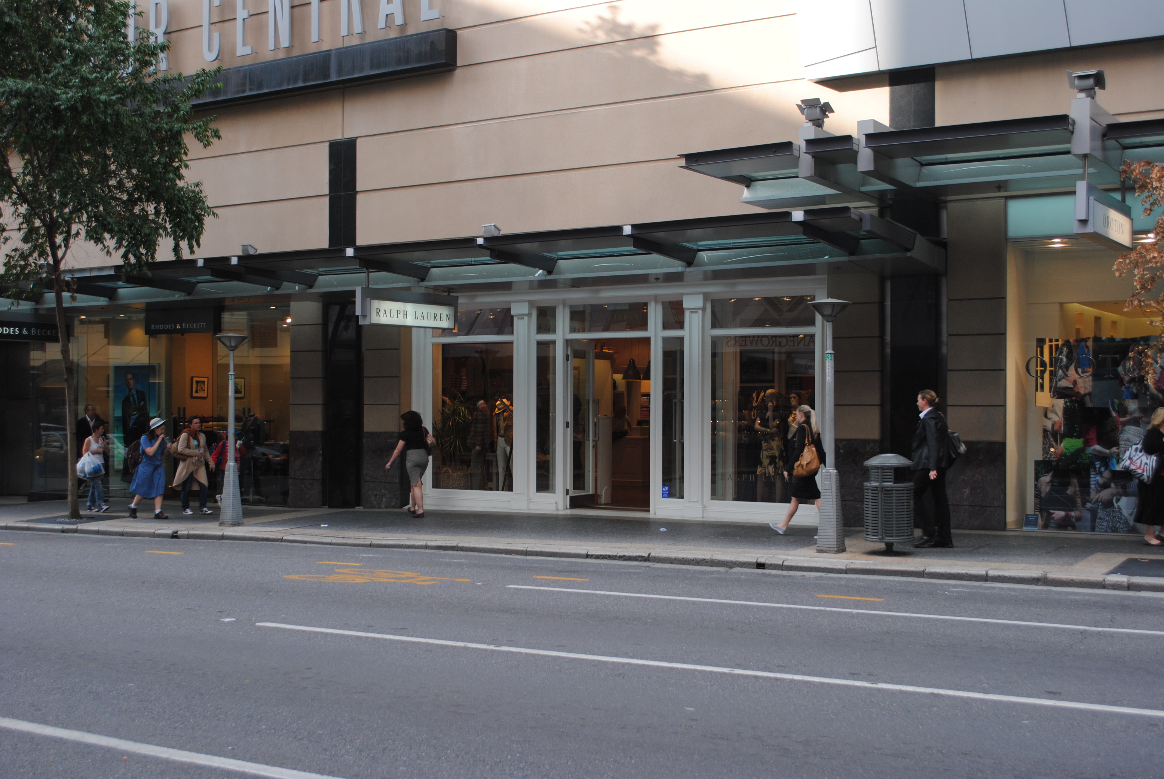 Ralph Lauren Store in MacArthur Central, Edward Street, Brisbane City